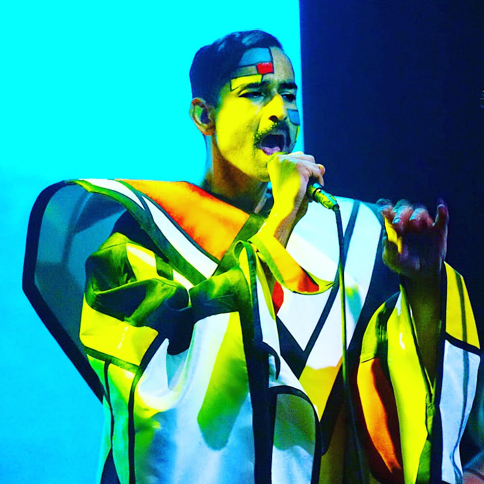 Aish on Mother US Tour